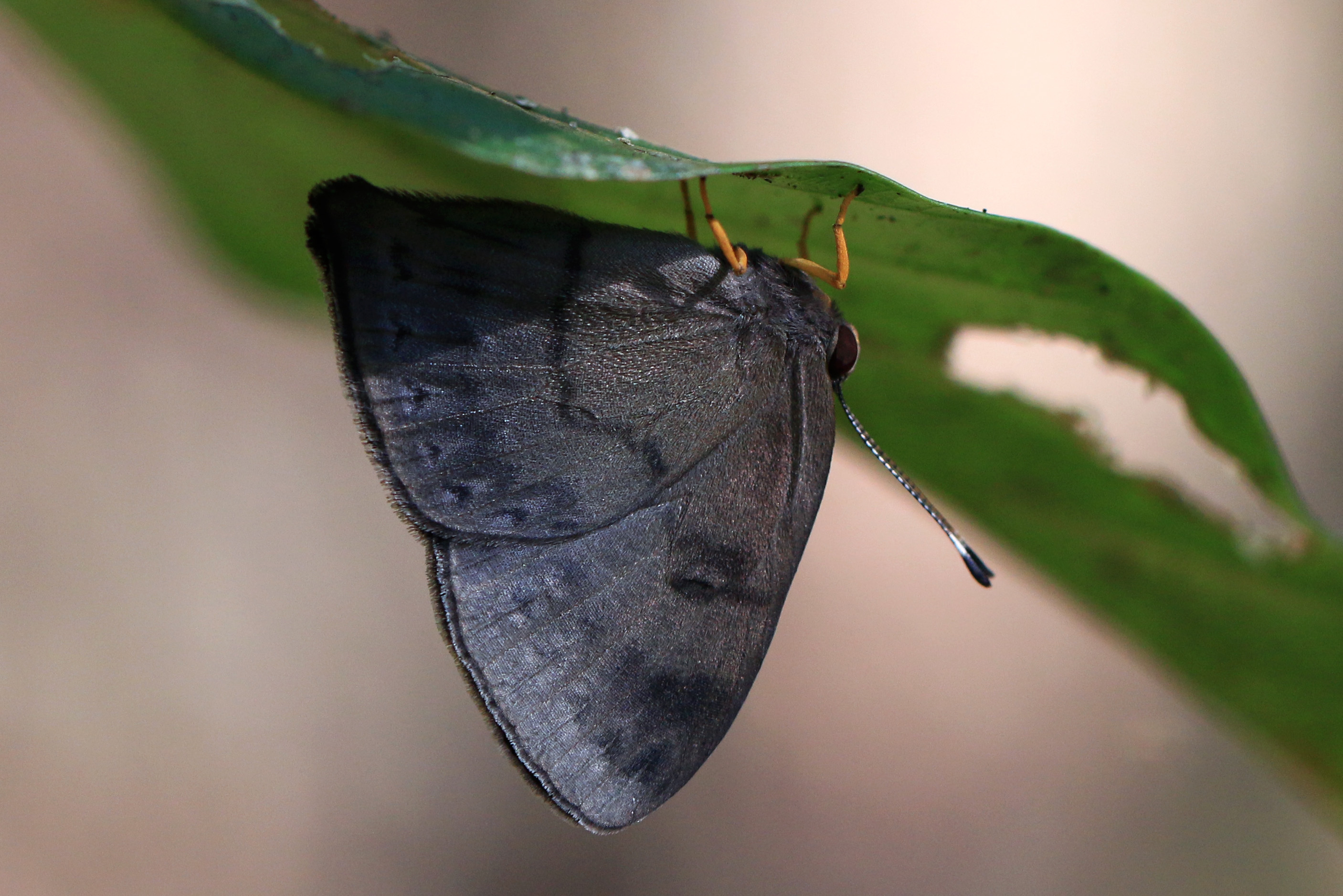 Eugeon sombermark (Euselasia eugeon), Cristalino River, Southern Amazon, Brazil